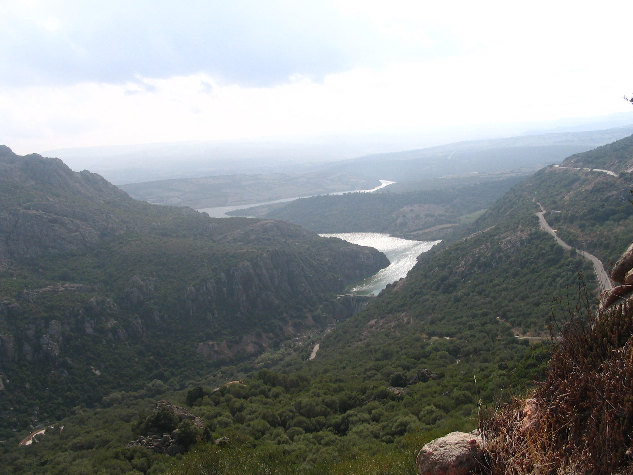 River Coghinas Barrage near Santa Maria Coghinas